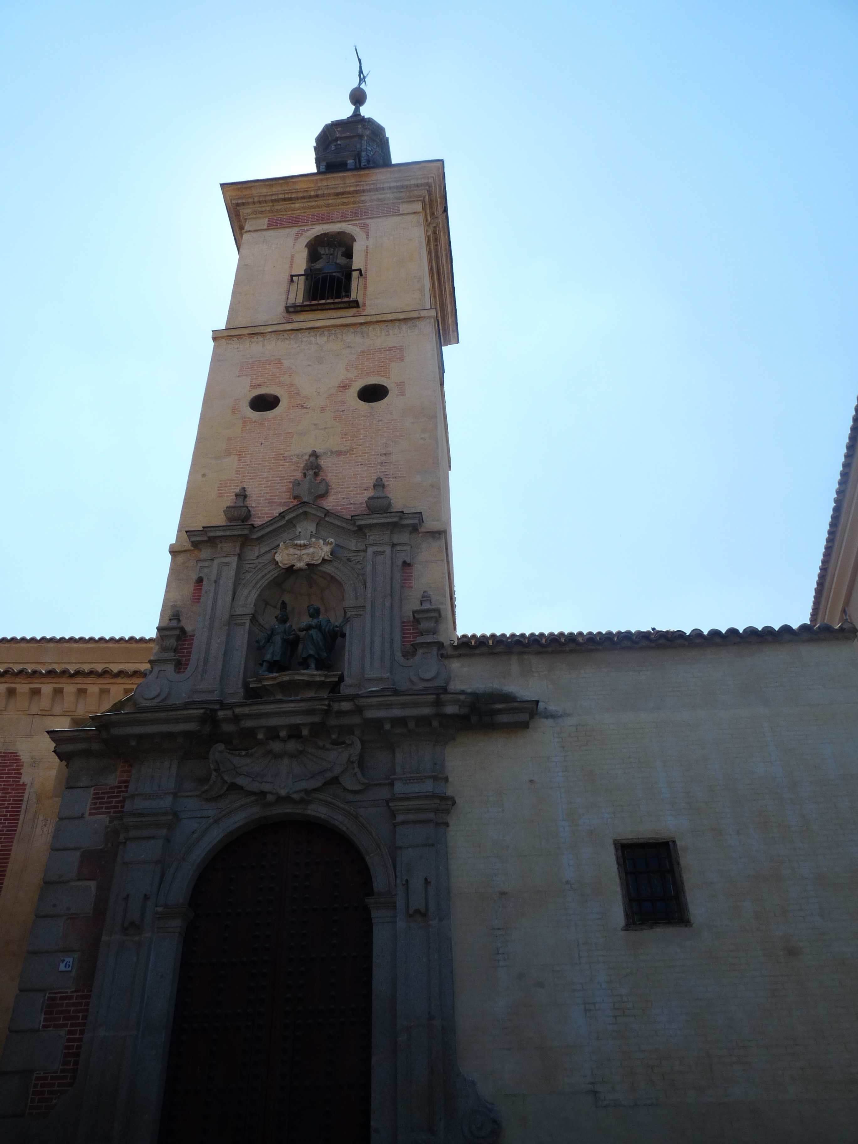 Church of San Justo, Toledo, province of Toledo, Castile-La Mancha, Spain.